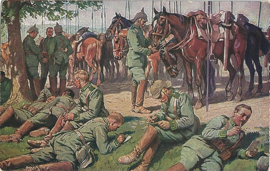 Jäger Regiment on horseback # 5